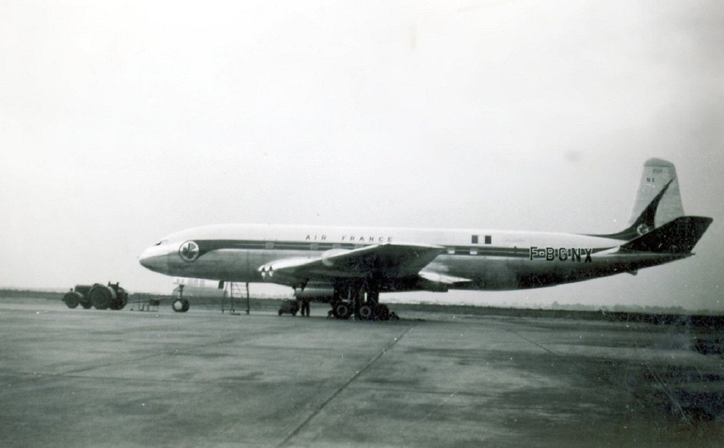 Air France De Havilland DH.106 Comet 1A (F-BGNX) at Hatfield